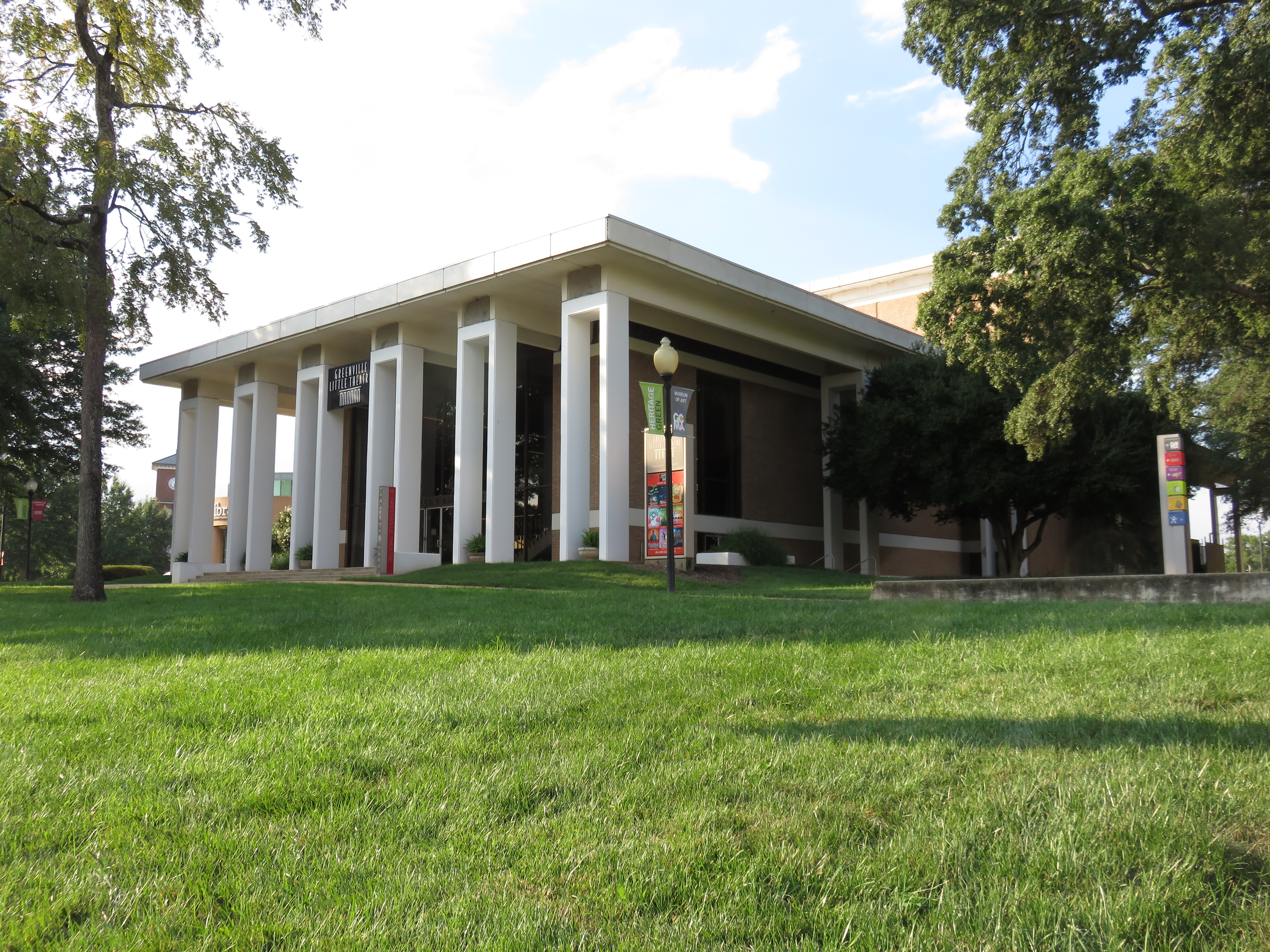 Greenville Little Theatre in Greenville, South Carolina in 2017